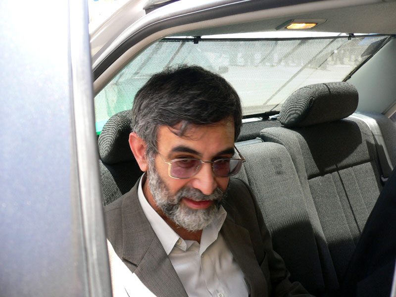 Gholam-Hossein Elham, the official spokesman of the government of Iran.